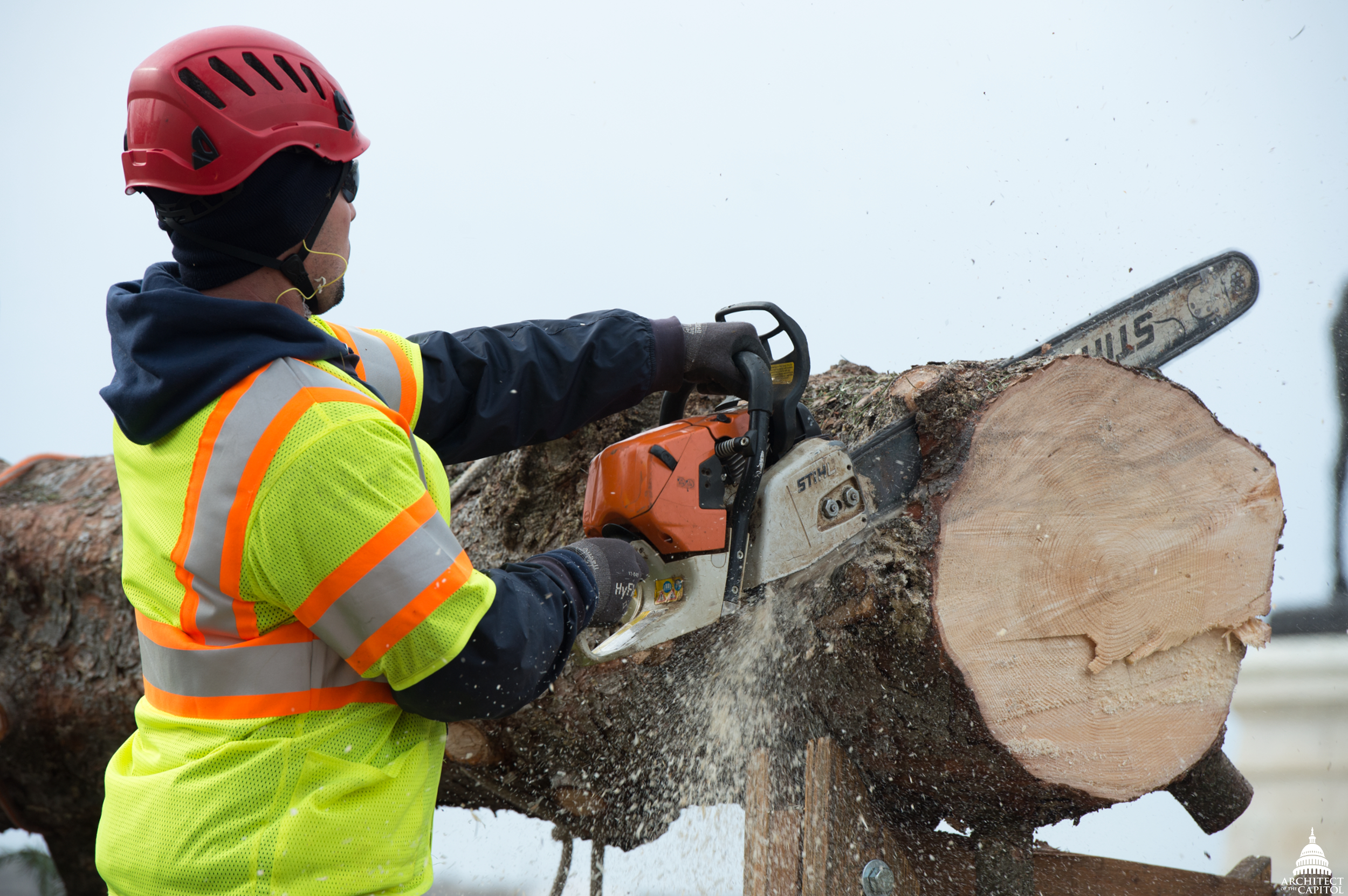 The 2016 Capitol Christmas Tree is an 80' Engelmann Spruce from the Payette National Forest in Idaho. AOC's Superintendent of the Capitol Grounds selected this Idaho gem to grace the Capitol lawn. Read the full story.